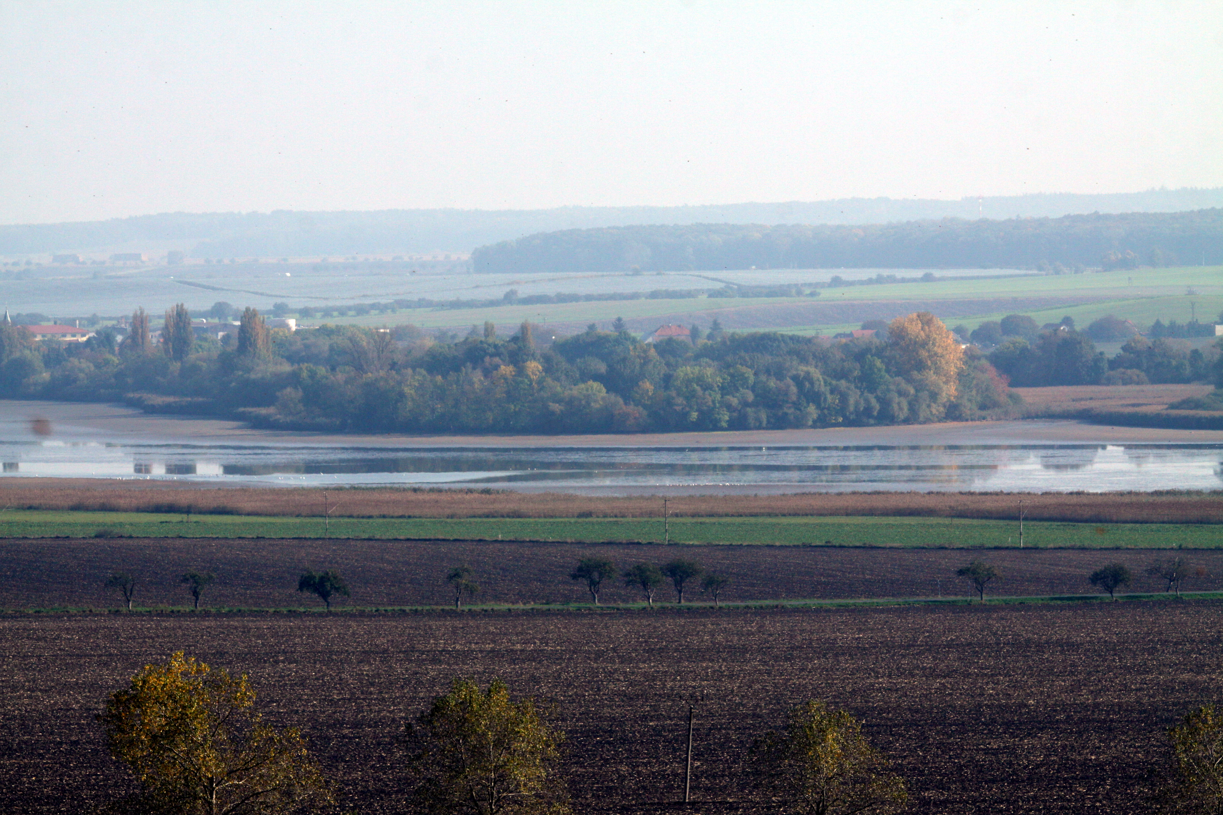 National natural monument Žehuňský rybník is spread in Hradec Králové, Kolín and Nymburk District in the Czech Republic